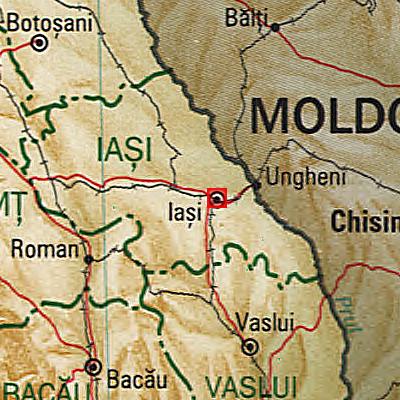 Map of Iași Municipality, Romania.